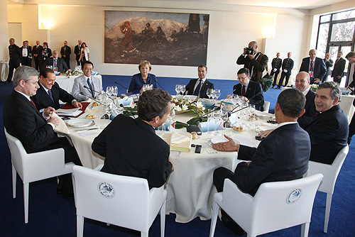 L'AQUILA, ITALY. G8 working breakfast.